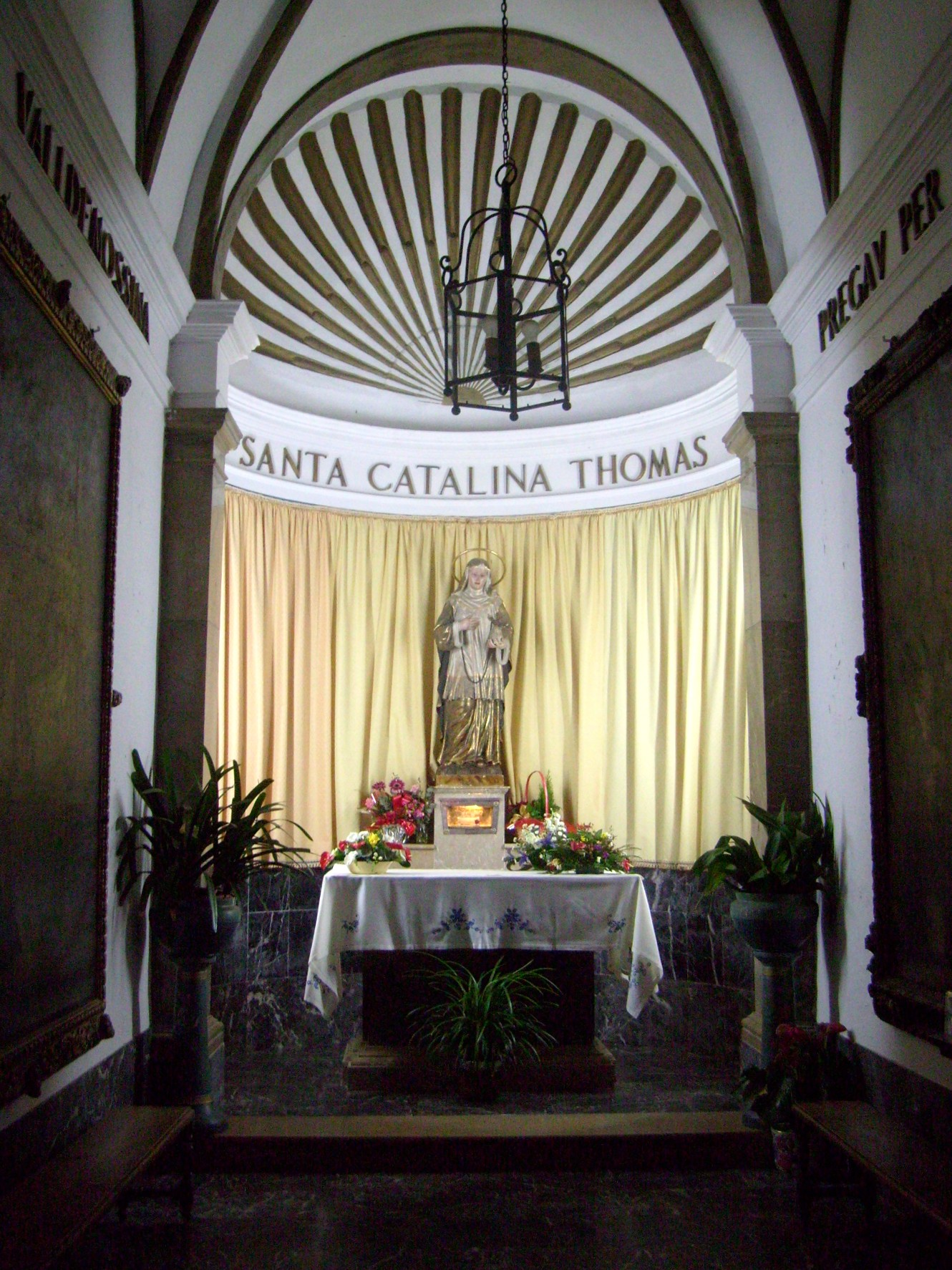 Santa Catalina